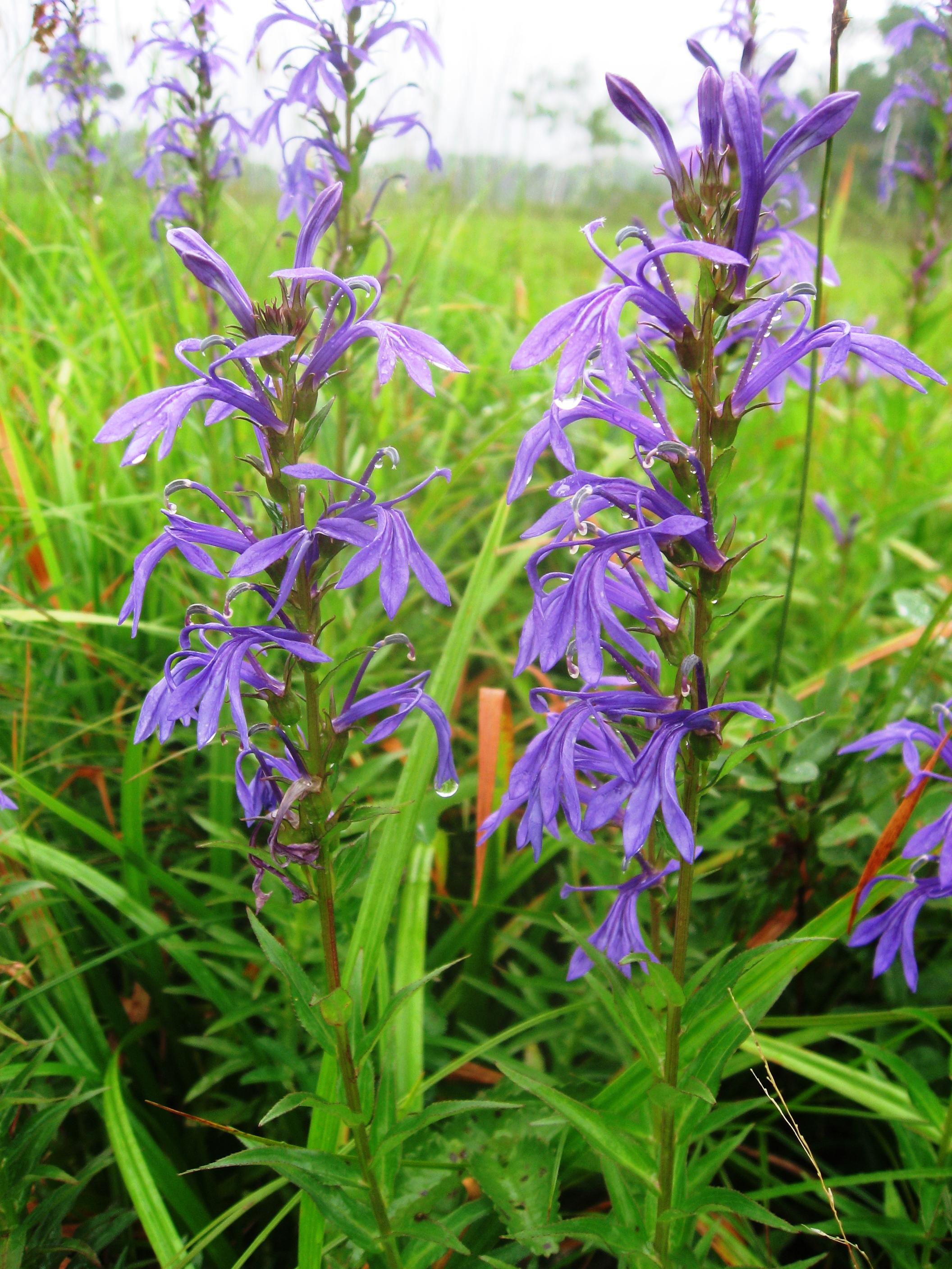 Lobelia sessilifolia, Ozegahara, Japan